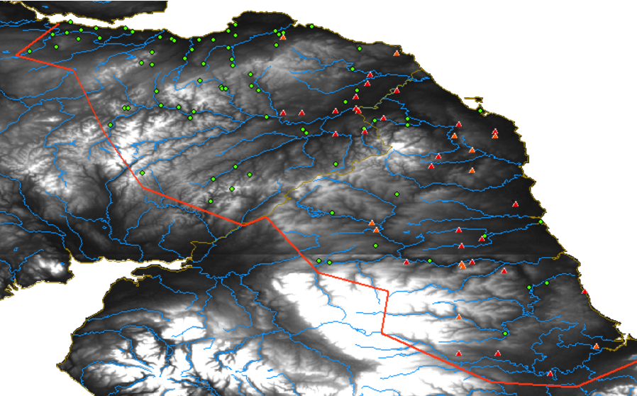 Map of place-names between the Firth of Forth and the River Tees: in green, names likely containing Brittonic elements; in red and orange, names likely containing the Old English elements -ham and -ingaham respectively. Survey area (approximately marked, in red) covers the pre-1974 counties of Northumbria, Durham, Selkirkshire, Roxburghshire, Berwickshire, Peeblesshire and the Lothians. Higher ground is lighter in colour; rivers are blue. First published at as part of Bethany Fox, 'The P-Celtic Place-Names of North-East England and South-East Scotland', The Heroic Age, 10 (2007)